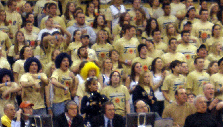 Oakland Zoo at a University of Pittsburgh basketball game at the Petersen Events Center. Crop from original photo.